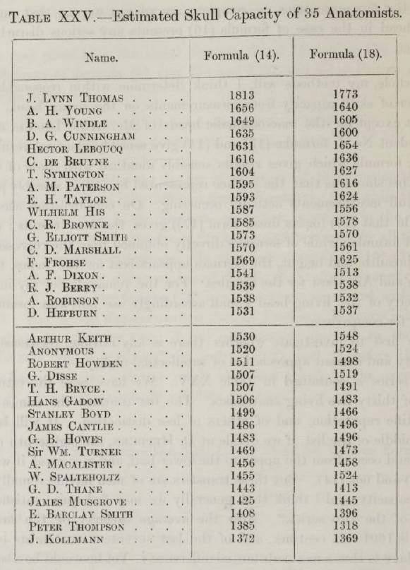 Alice Lee - Estimated skull capacity of 35 Anatomists (from "A first study of the correlation of the human skull")